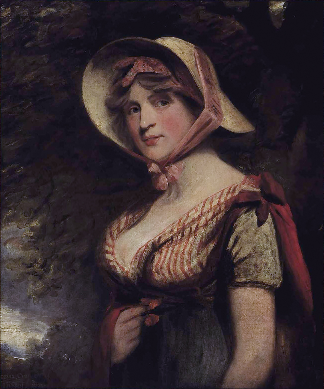 Portrait of Lady Louisa Manners, Countess of Dysart (1745-1840)